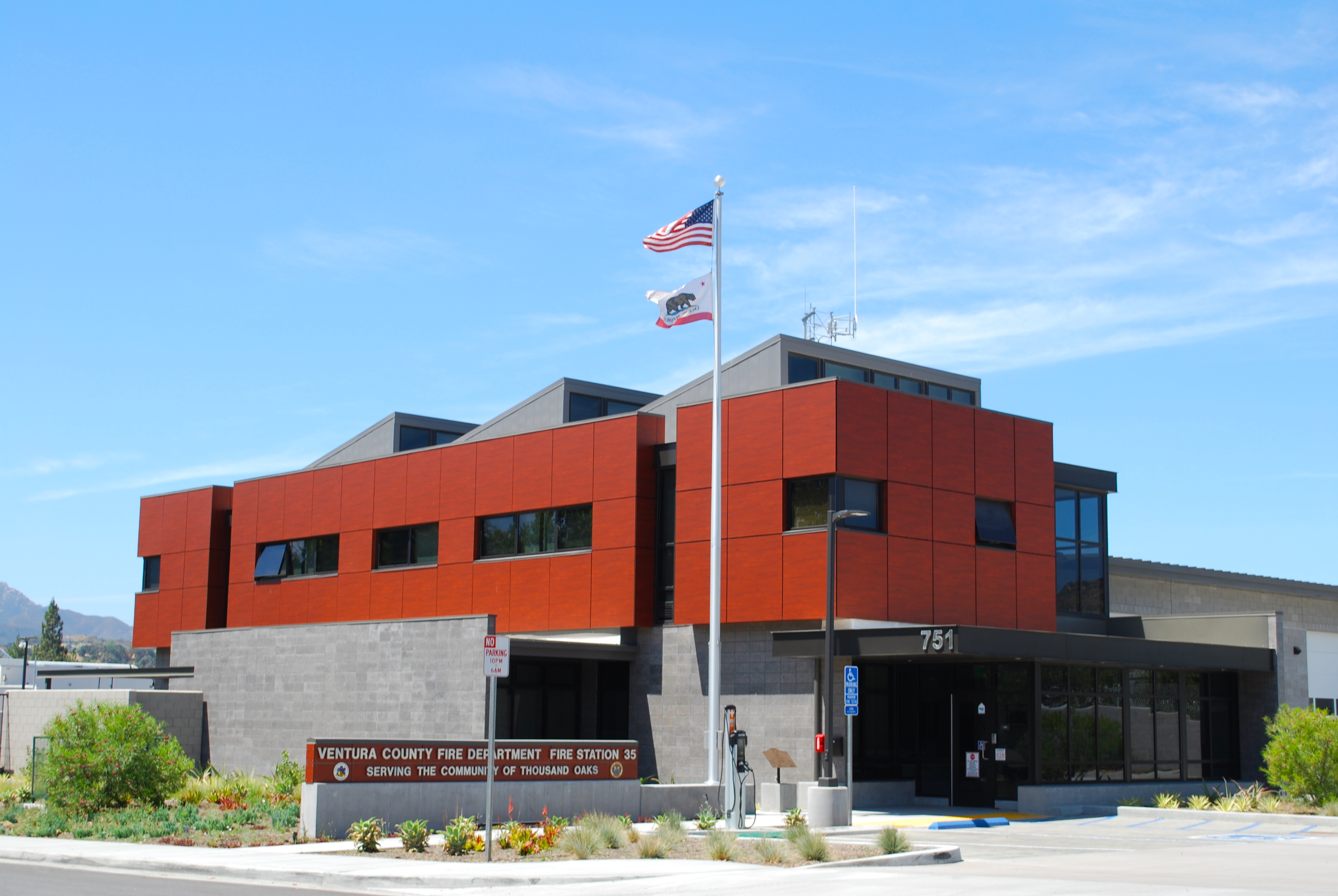 Ventura County Fire Station No. 35 on 751 Mitchell Road, Newbury Park.